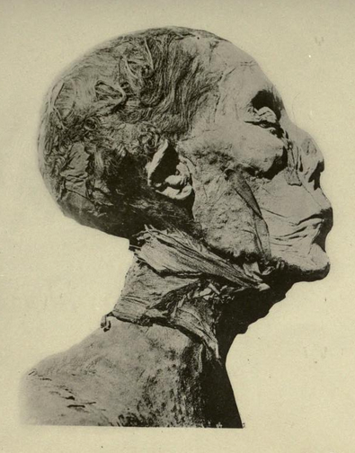 Mummy of pharaoh Amenhotep II, found in 1898 in his theban tomb (KV35).